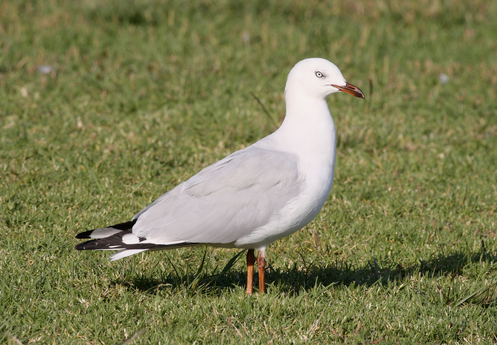 Larus_novaehollandiae_(Silver_Gull).